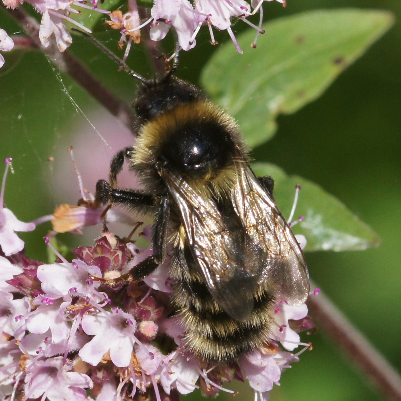 Bombus subterraneus (male). Picture taken in Skåne, Sweden.